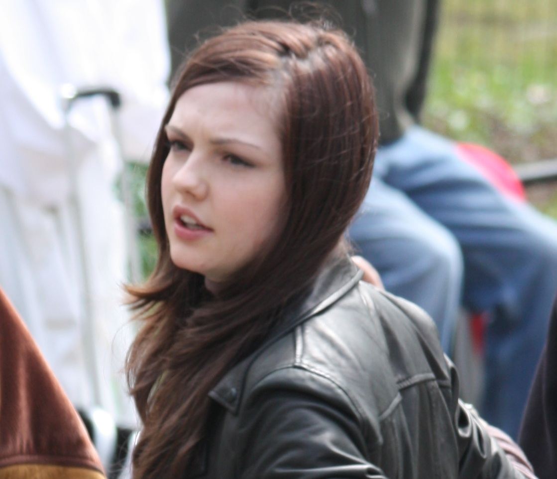 Crop of actress Emily Meade filming Twelve (film) in Central Park in 2009.